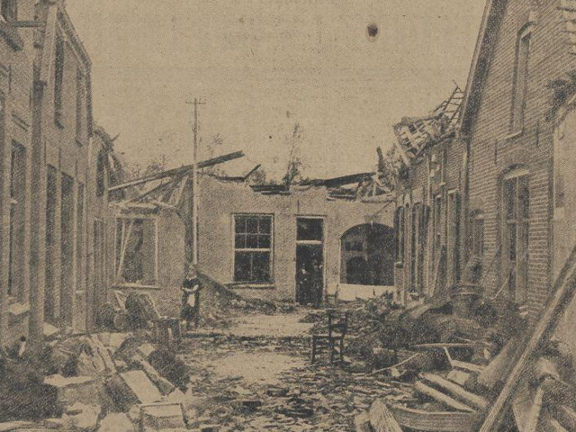 Tornado of 1925 in the Netherlands